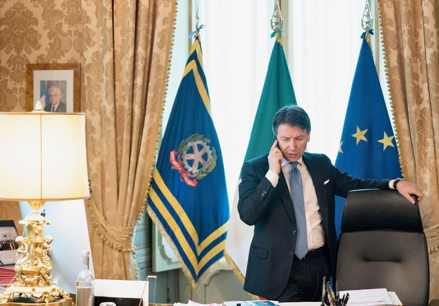 Giuseppe Conte in 2020